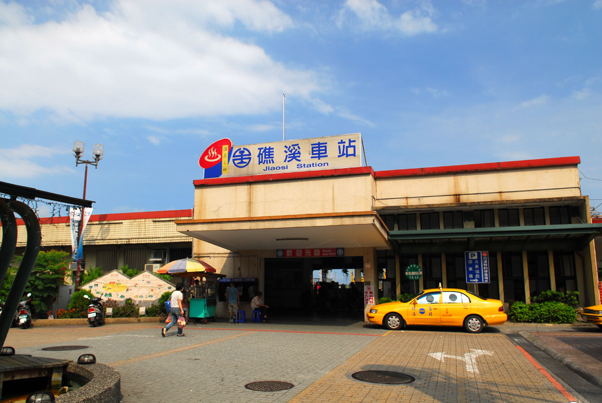 Jiaosi Station is a local train station of TRA Yilan Line, part of Taiwan's eastern rail line. It's the central station of the famous hot spring resort, Jiaosi Township, and sorrounded by many hot spring hotels. 中文（台灣）: 礁溪車站是臺鐵宜蘭線上的一座地方車站，位於宜蘭縣礁溪鄉境內也是該鄉的主車站，周圍圍繞著許多溫泉旅館。